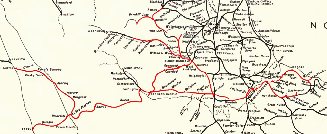 The former Stockton & Darlington Railway lines, shown in red, as part of the larger North Eastern Railway (United Kingdom) system in 1904.